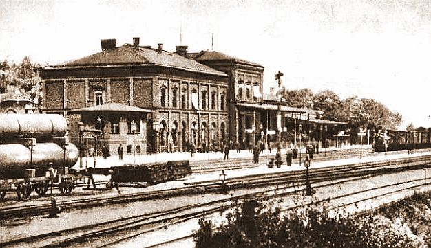 Gniezno. Railway station area from the side of the platforms. Photograph from Museum of the Polish State Origins in Gniezno 's collection. Published: S. Pasiciel, Gniezno. Widoki miasta 1505-1939, Warszawa-Poznań, 1989 (publisher: Państwowe Wydawnictwo Naukowe; ISBN 83-01-08544-4)